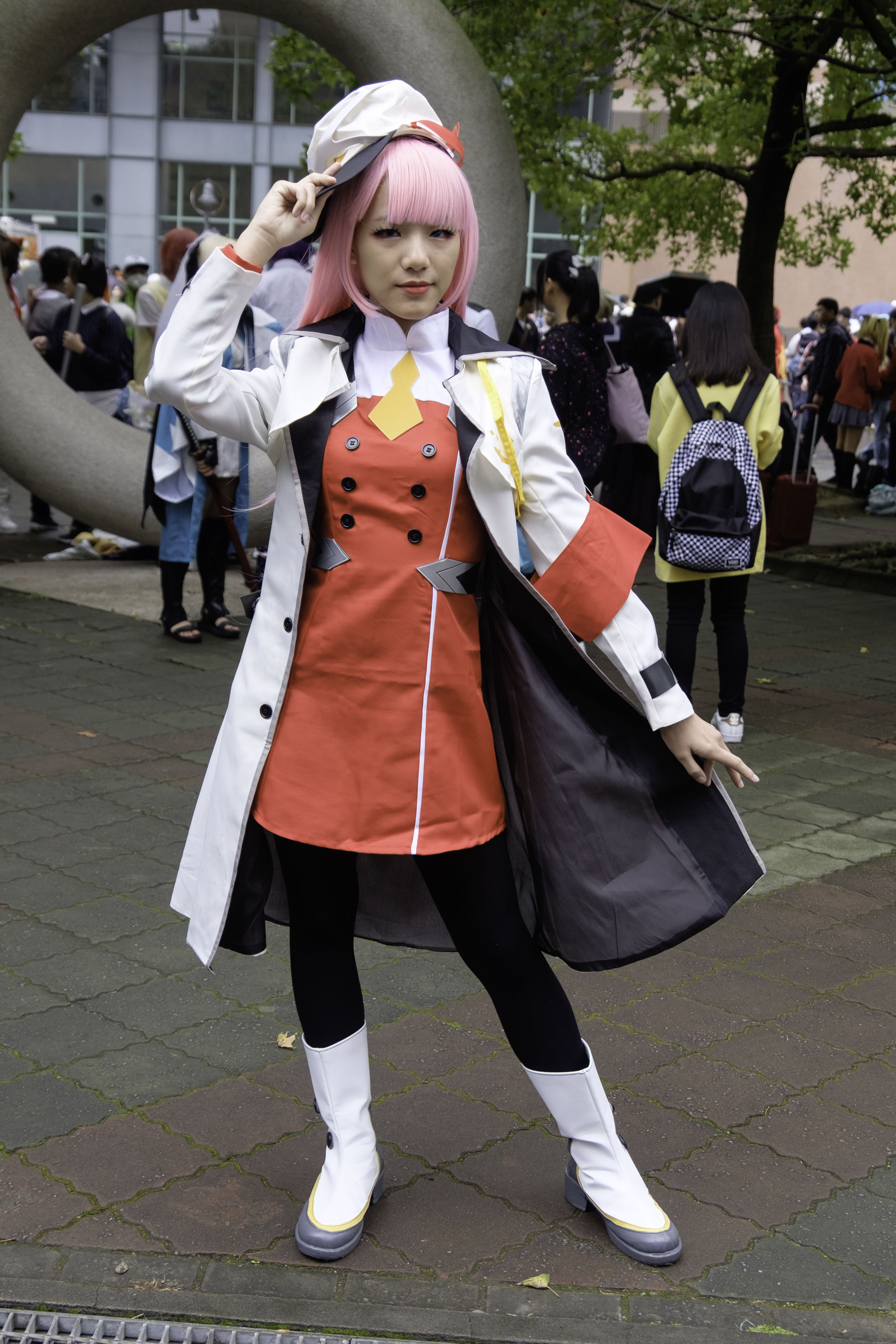 《DARLING in the FRANXX》02 cosplayer。